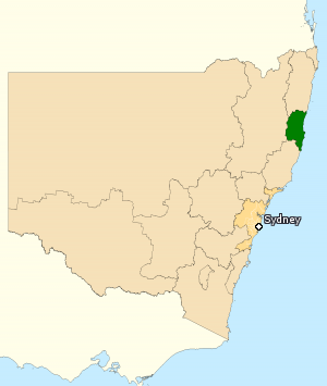 Incorporates or developed using Administrative Boundaries ©PSMA Australia Limited licensed by the Commonwealth of Australia under Creative Commons Attribution 4.0 International licence (CC BY 4.0). Derived from State and Territory Boundaries from the Australian Bureau of Statistics under Creative Commons Attribution 2.5 Australia license (CC BY 2.5 AU)